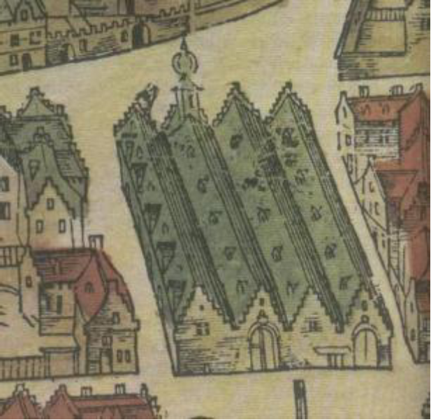 Tapissierspand of Antwerp around 1565